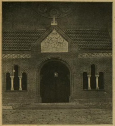 Portal of Church of Saints Simon and Helena (Minsk, Belarus), 1910 AD